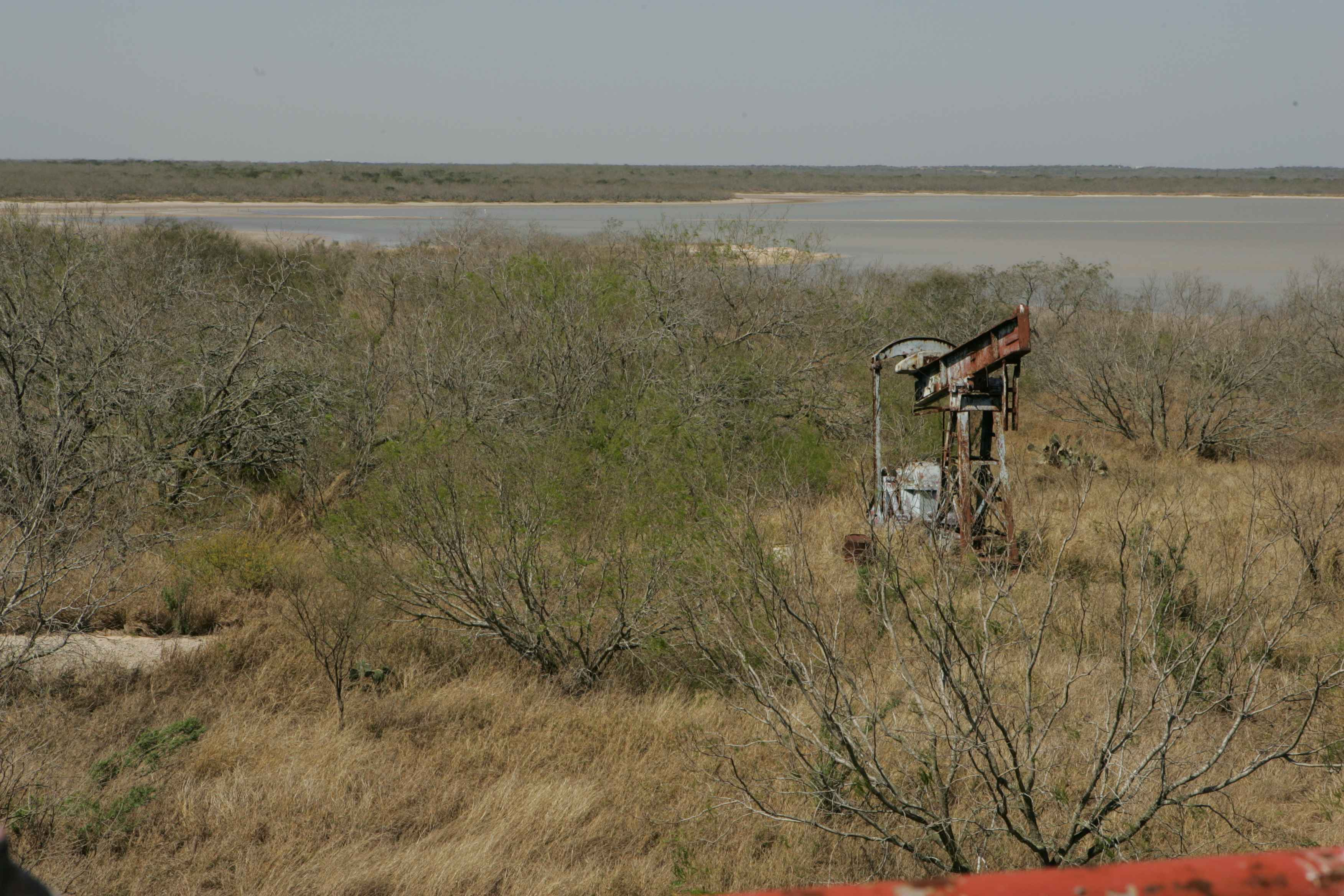 Image title: Abandoned gas well pump Image from Public domain images website